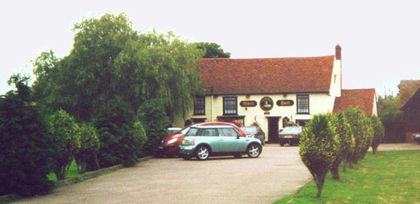 White Hart Public House, West Bergholt, Colchester, Essex,UK